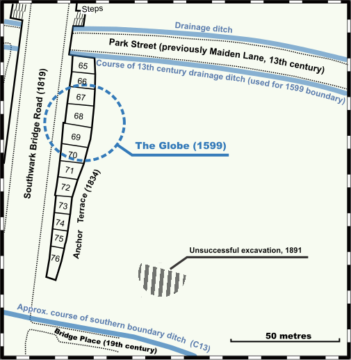 Position of Globe Theatre, London, relative to modern street plan. Information from The Rose and the Globe — playhouses of Shakespeare's Bankside, Southwark, ISBN 978-1-901992-85-4, pp 12; 107. Base map of Anchor Terrace is the revenue surveyors' Town Plan of London, scale 1:1056, published by Ordnance Survey 1875. Drawn by uploader using Inkscape.